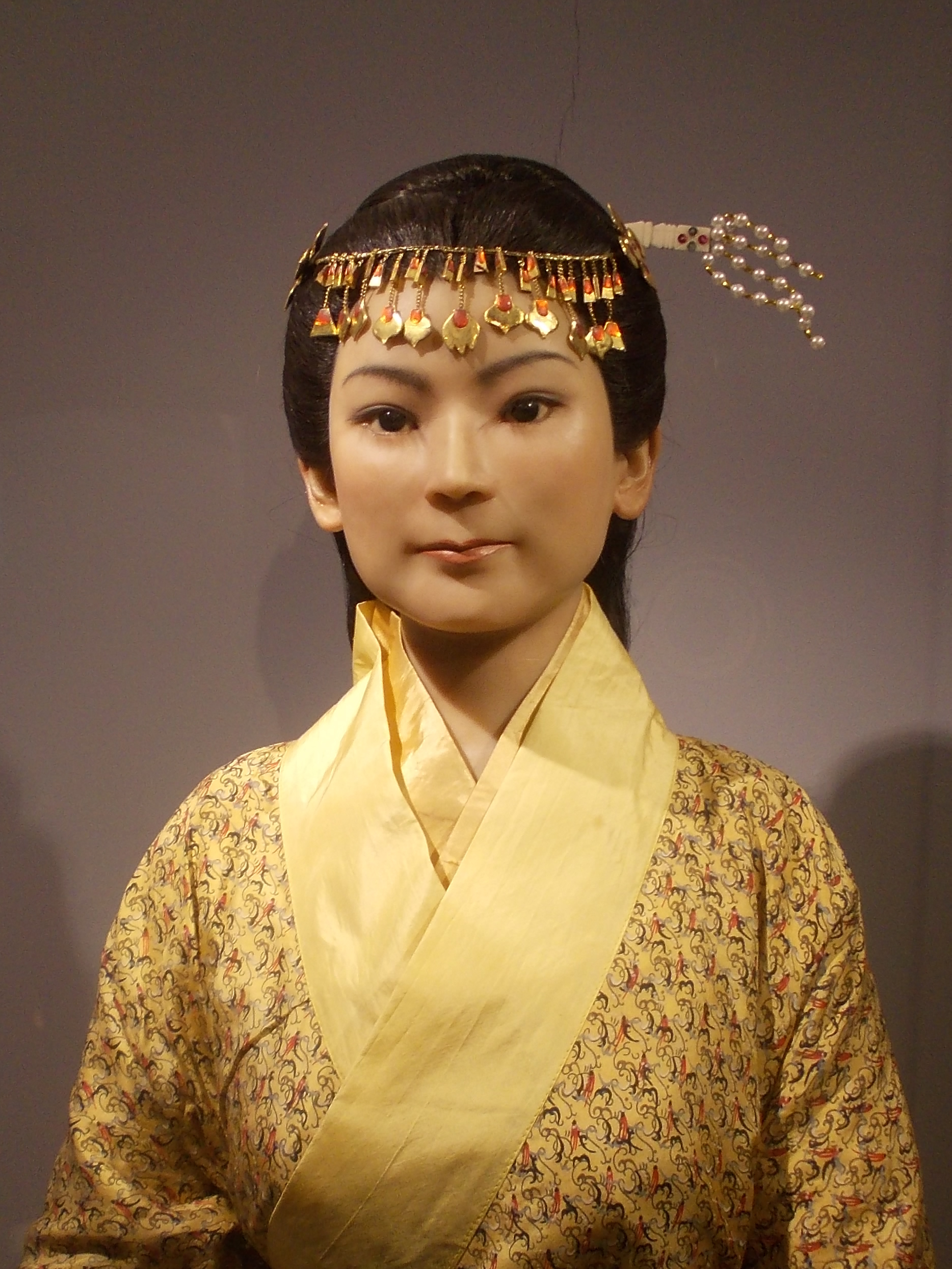 Xin Zhui (Chinese: 辛追), also known as Lady Dai, was the wife of the Marquess Li Cang. Wax reproduction from the cast of her mummy discovered at Mawangdui.